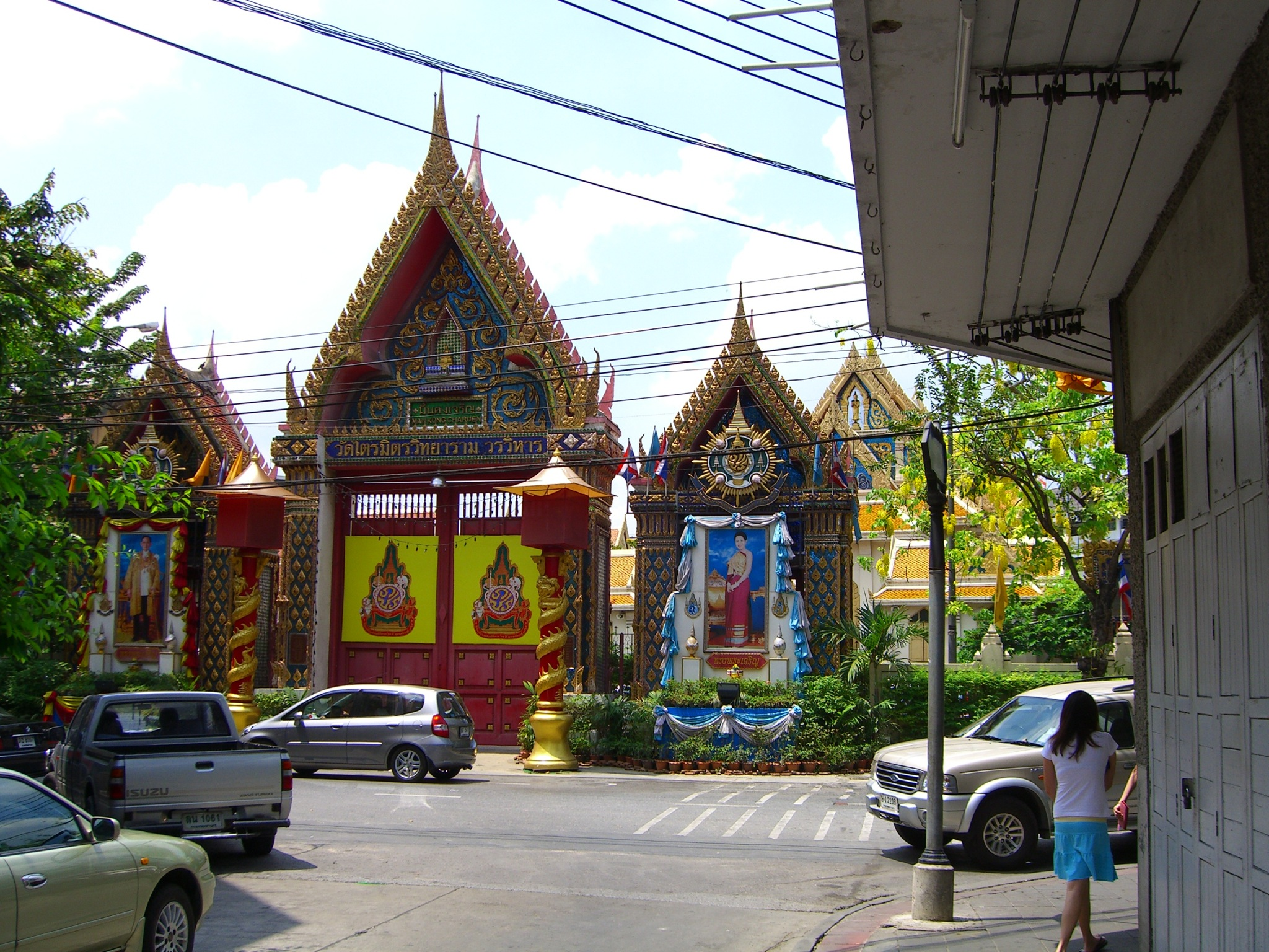 walking around aimlessly... (Wat Traimit - "Temple of the Goldenen Buddha", Samphan Thawong district, Bangkok, Thailand)